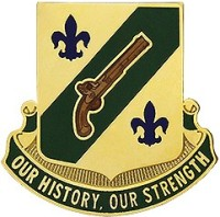 117th MP BN DUI